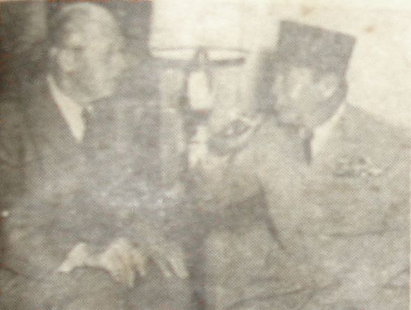 Harold MacMillan with Sukarno